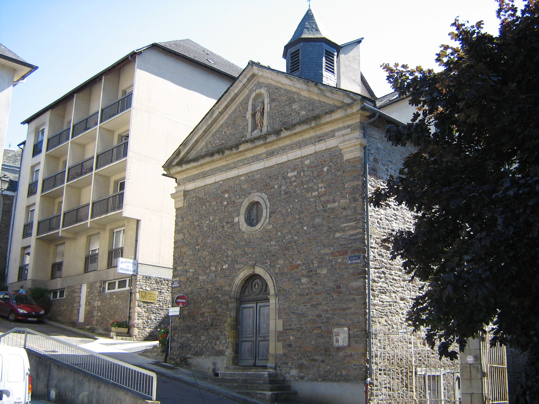 uzerche